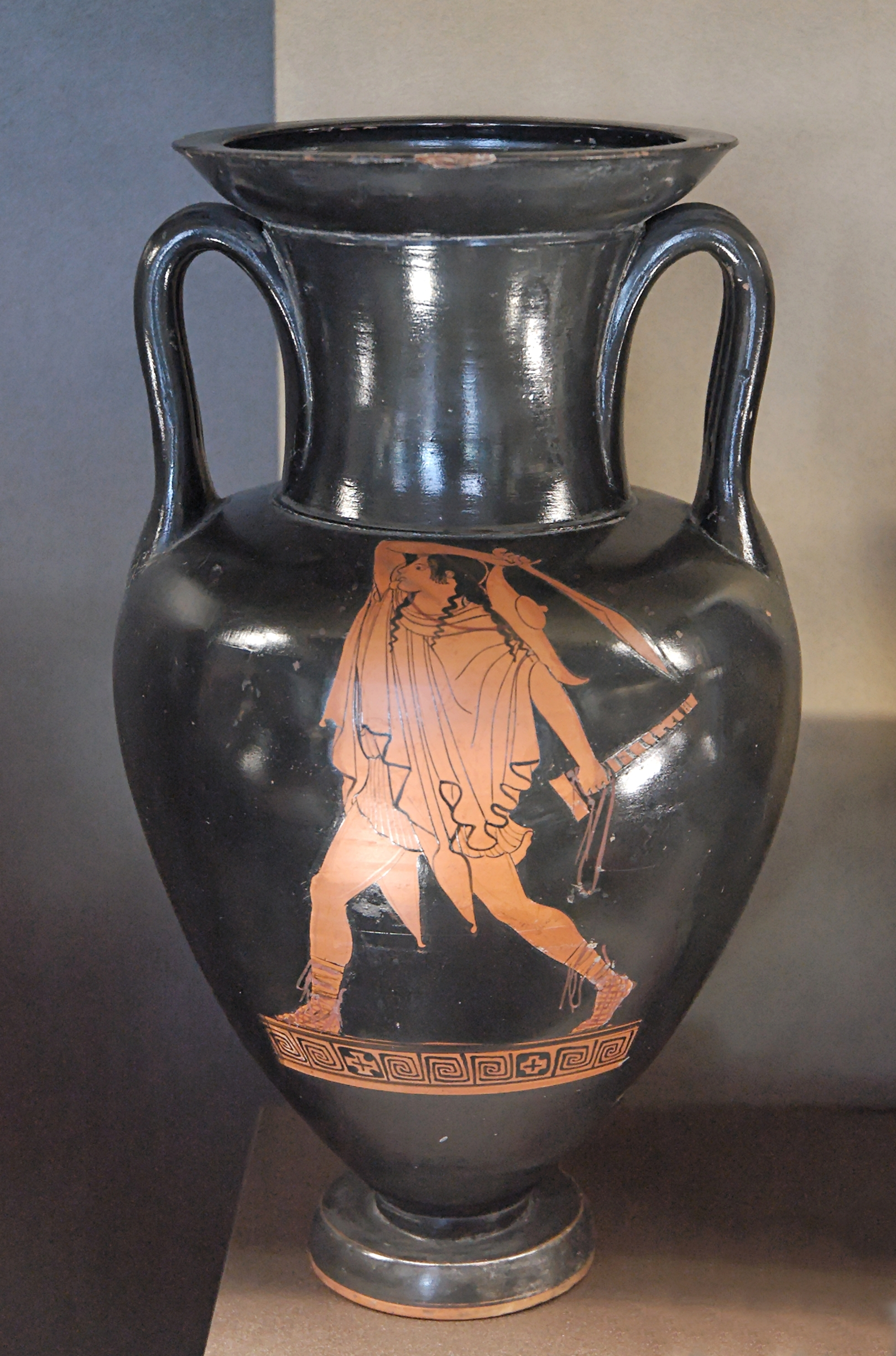 Young man brandishing a sword. Side A from an Attic red-figure neck-amphora, ca. 470 BC. From Nola.